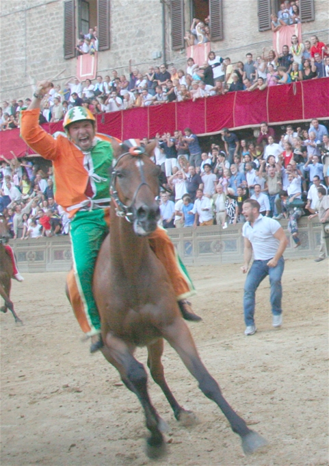 Selva jockey Salasso celebrates victory